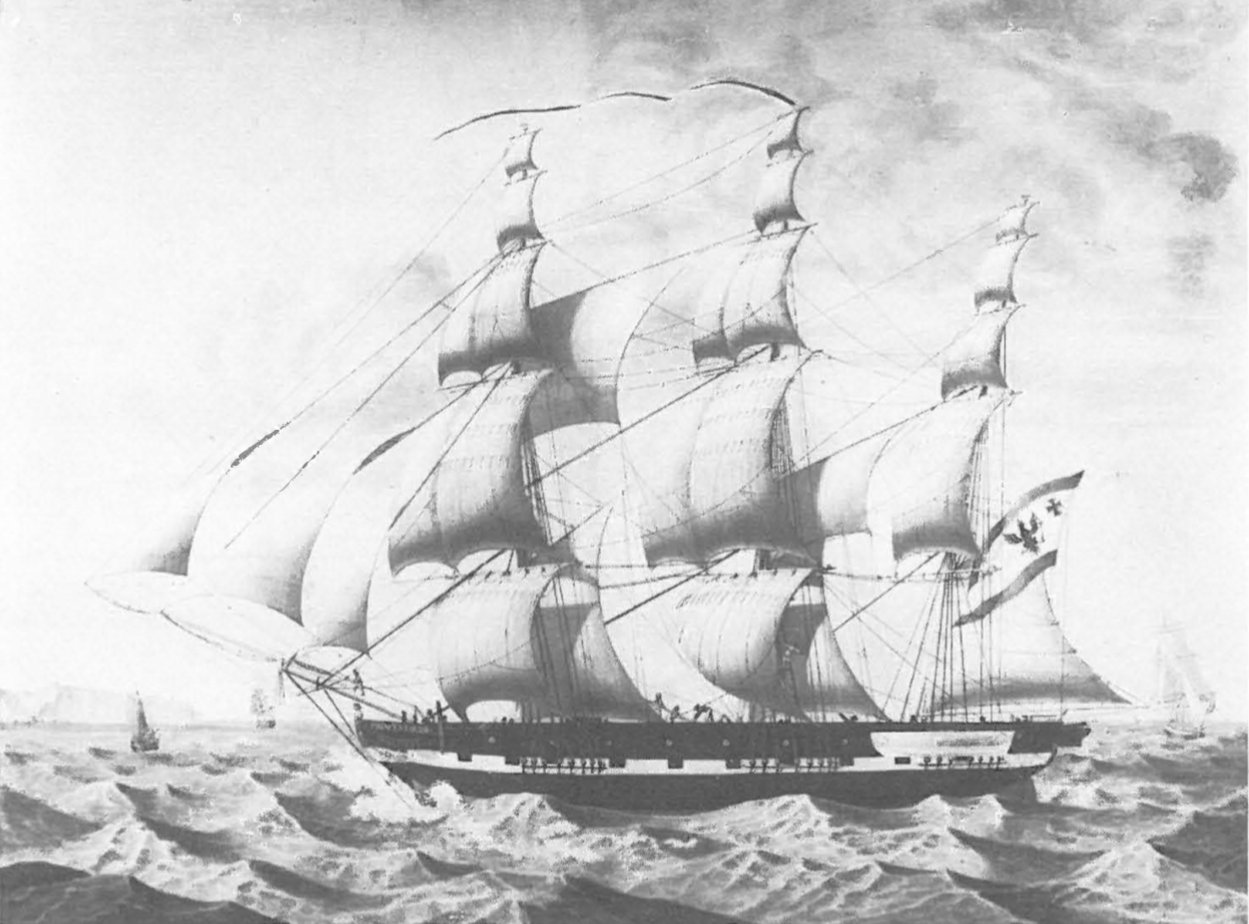 Fully rigged sailing ship Princess Louise, build 1824 in Bremen, 1825 bought by the Prussian Sea Trade Company, did between 1826 and 1840 five circumnavigations